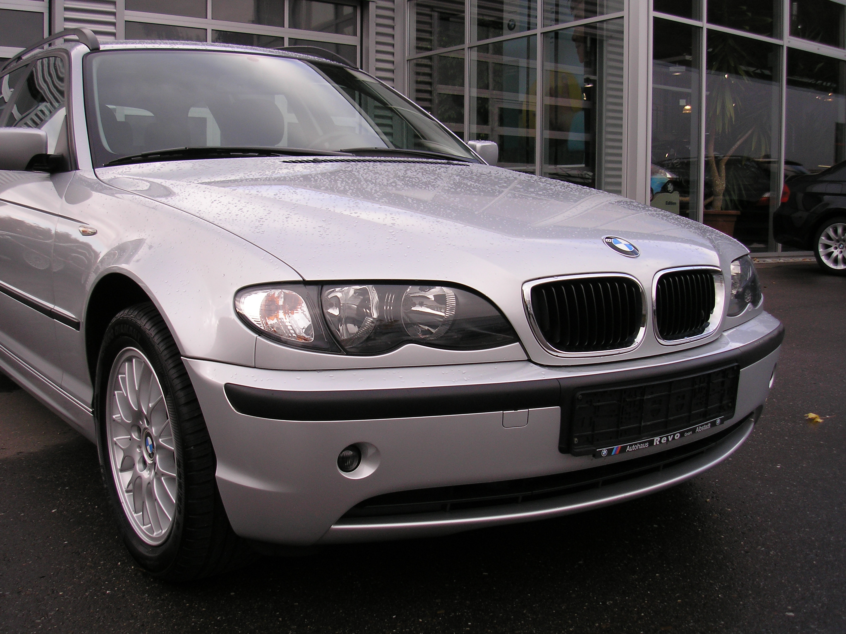 BMW E46 touring Facelift